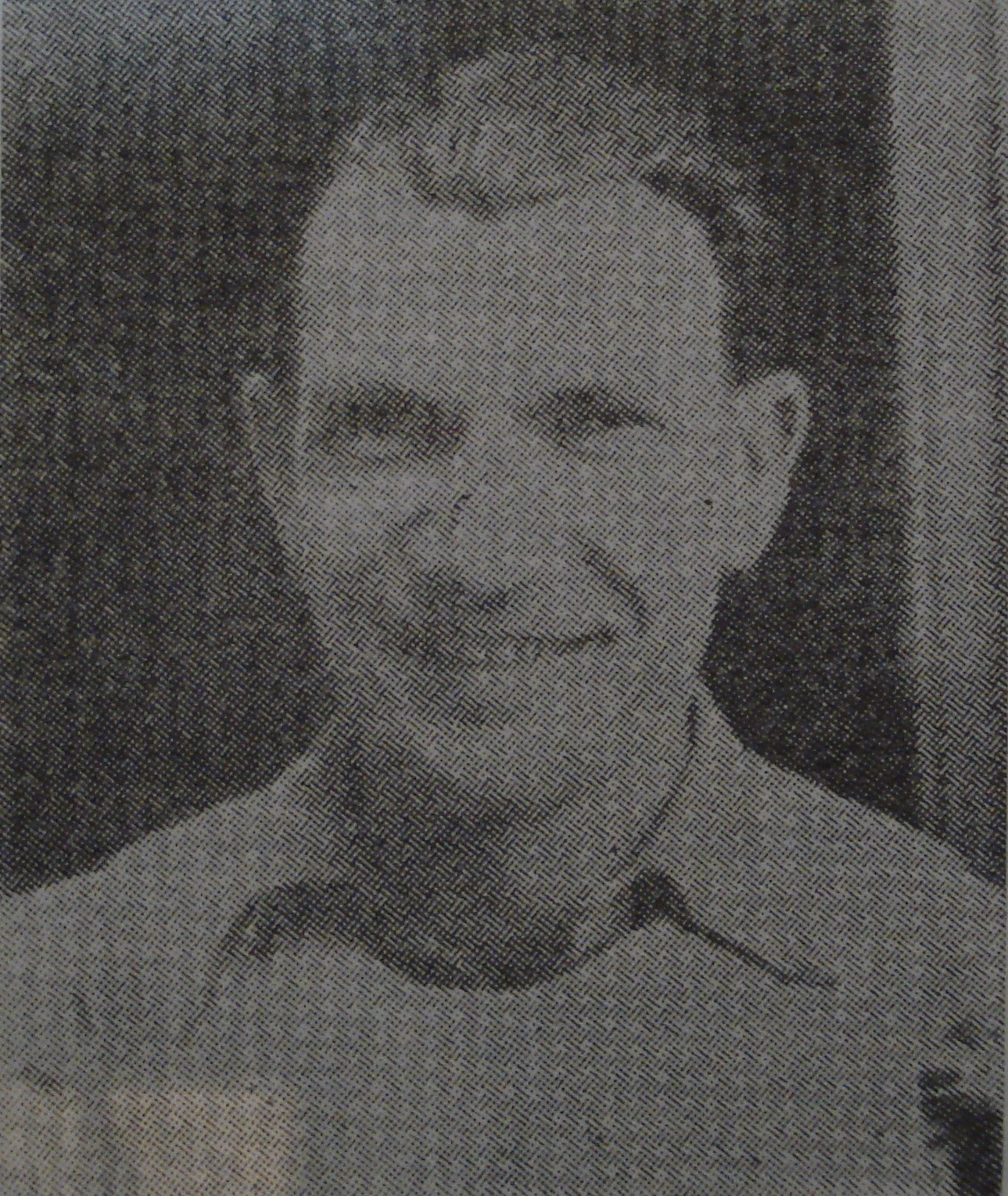 Milorad Dimanic, datum nije tacan